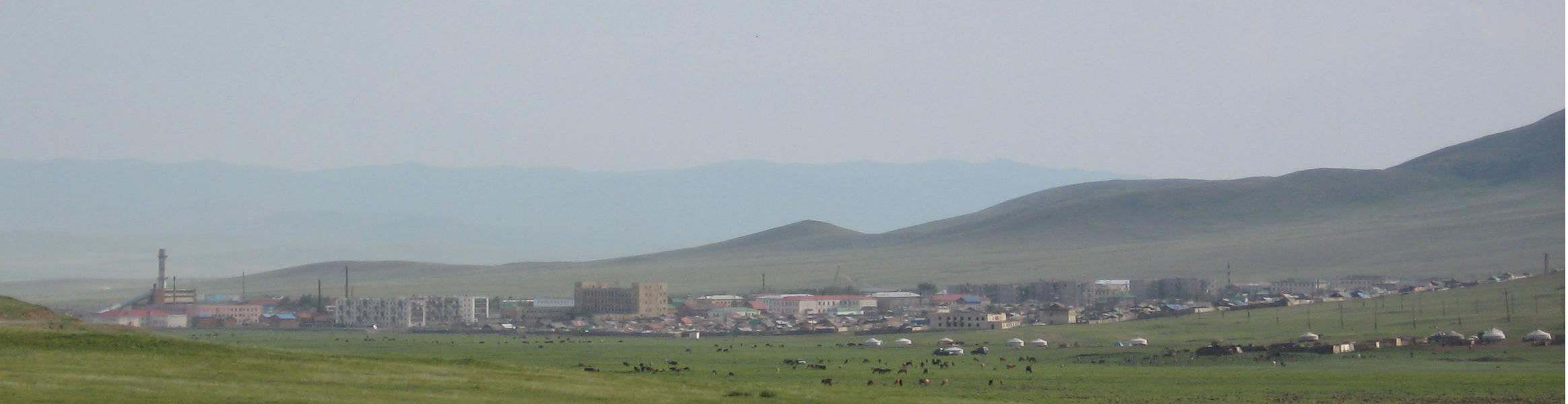 View of Zuunmod, from the road to Manzushir (sp?) Hiid